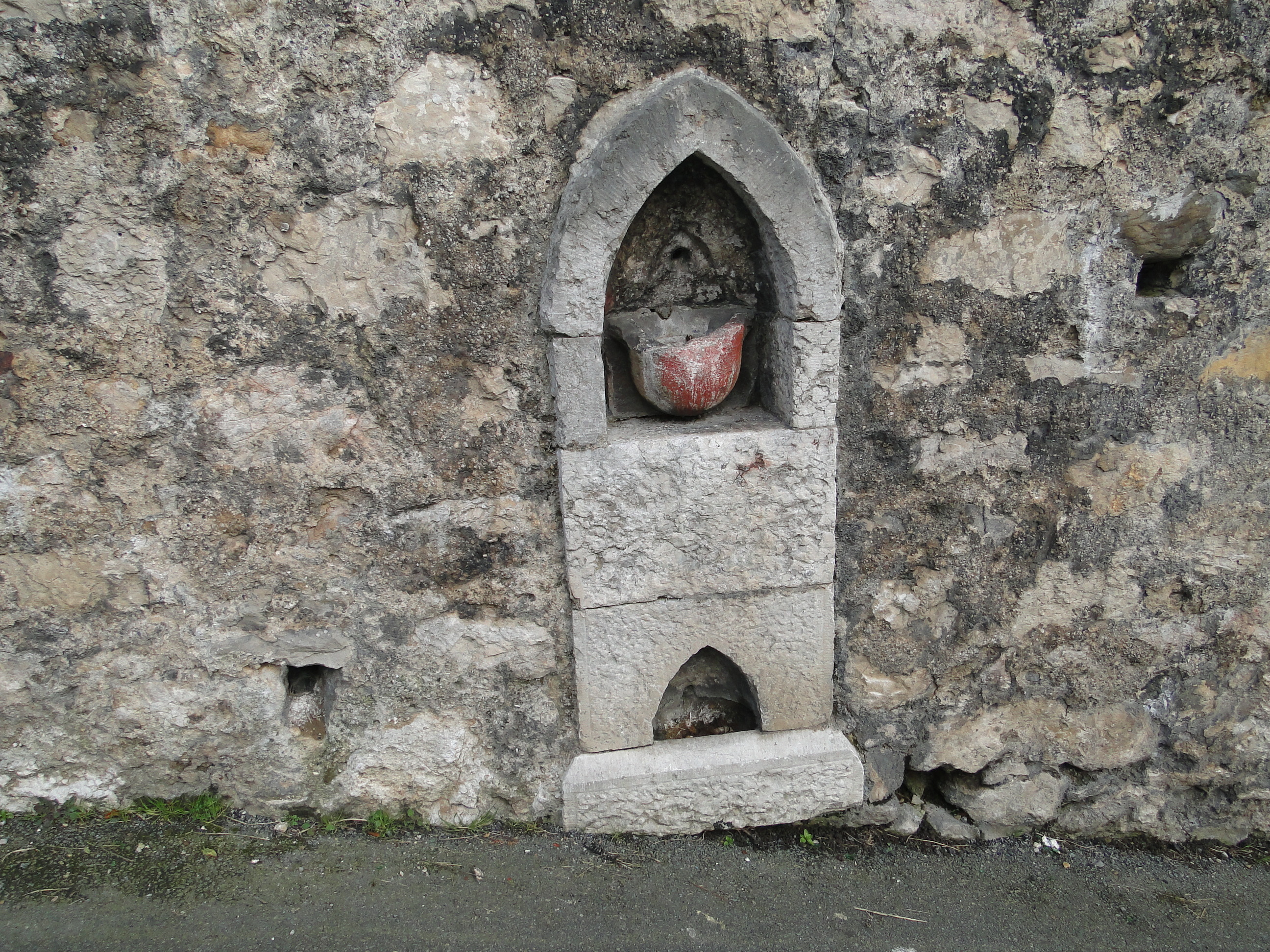 Ffynnon Wen, one of the many renowned wells on Llandudno's Great Orme